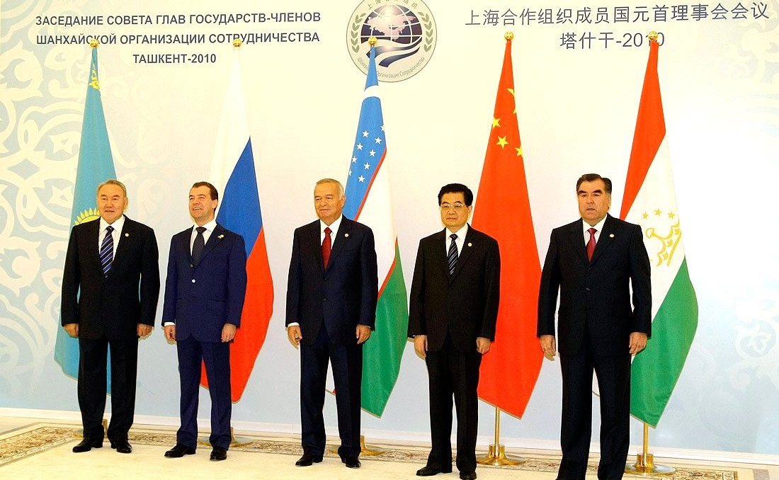 Delegates at the Shanghai Cooperation Organisation Council of Heads of State meeting in narrow format. With President of Kazakhstan Nursultan Nazarbayev, President of Uzbekistan Islam Karimov, President of China Hu Jintao, and President of Tajikistan Emomali Rahmon.